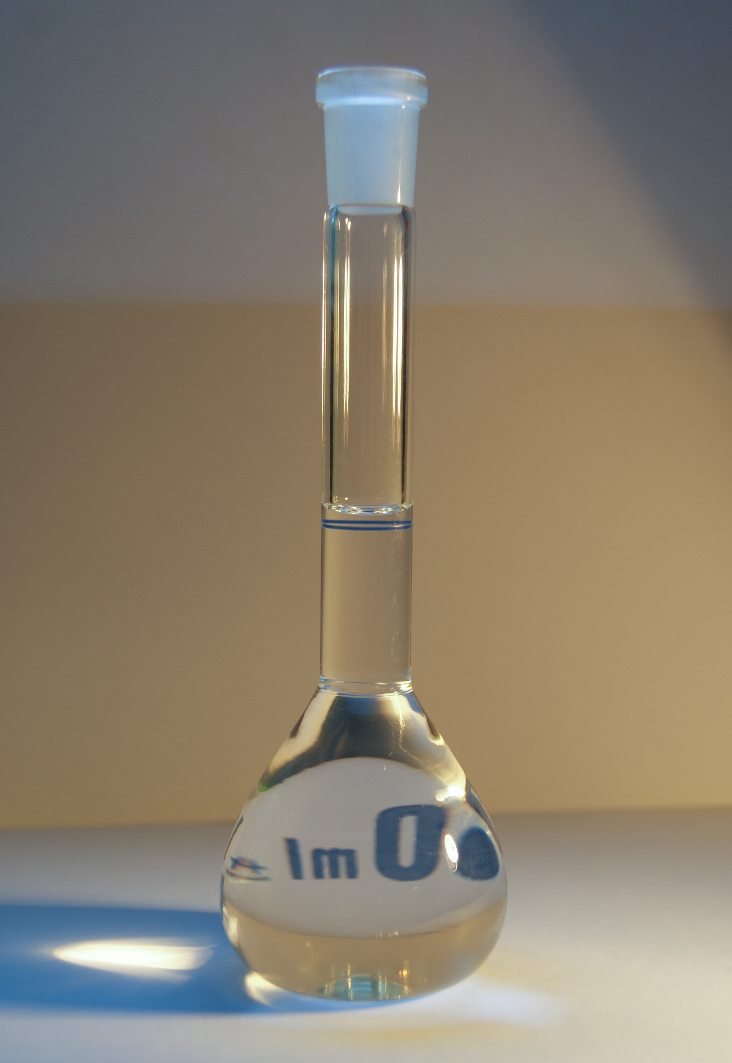 Isopropyl alcohol/ Isopropanol (approx. 100%)